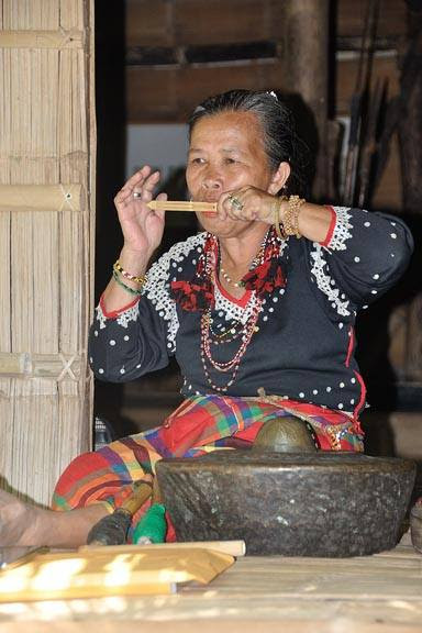 Blaan woman playing the jew mouth harp. Taken in 2014 in Sarangani.